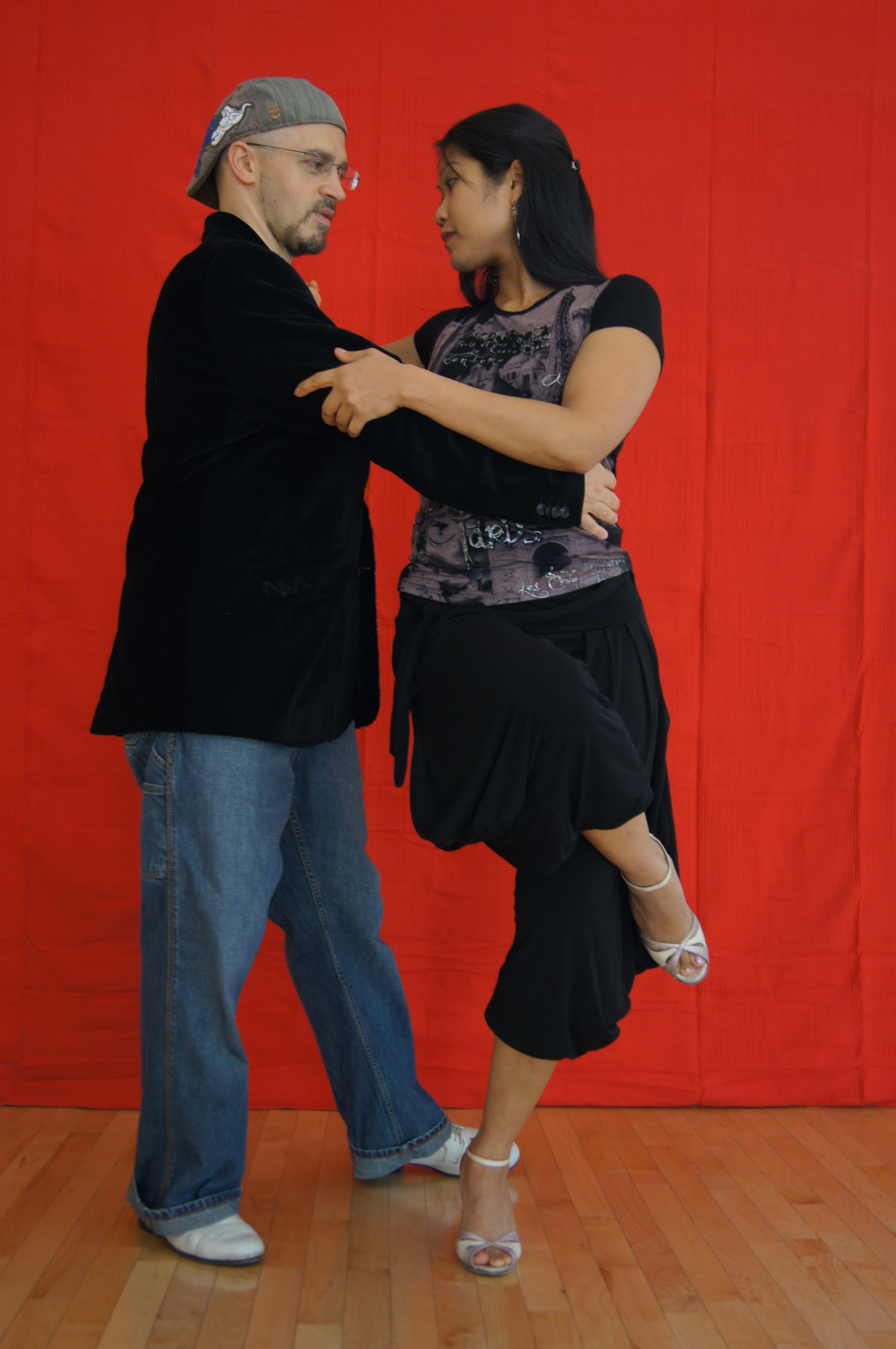 Forward boleo; high. Tango teachers Homer and Christina Ladas are demonstrating argentine tango figures. Stanford, California, USA.